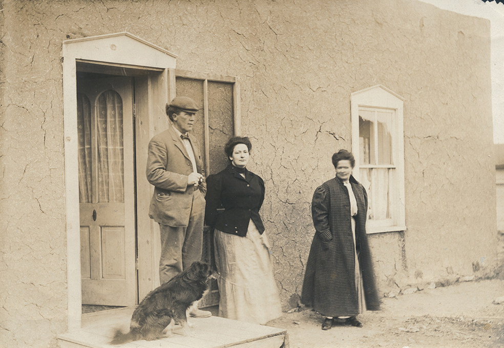 Title: La casa del senor Don Alberto Forbes, de San Luis, Colo., y su familia, y su perro. Creator: Unknown Date: April 11, 1909 Place: San Luis, Costilla County, Colorado Part Of: Costilla Estates Development Company, San Luis, Colorado Photographs, April, 1909 Physical Description: 1 photographic print: 11 x 17 cm File: ag1993_0892_09_lacasa_opt.jpg Rights: Please cite Southern Methodist University, Central University Libraries, DeGolyer Library when using this file. A high-quality version of this file may be obtained for a fee by contacting . For more information, see: View the full series: View U.S. West: Photograph, Manuscripts, and Imprints